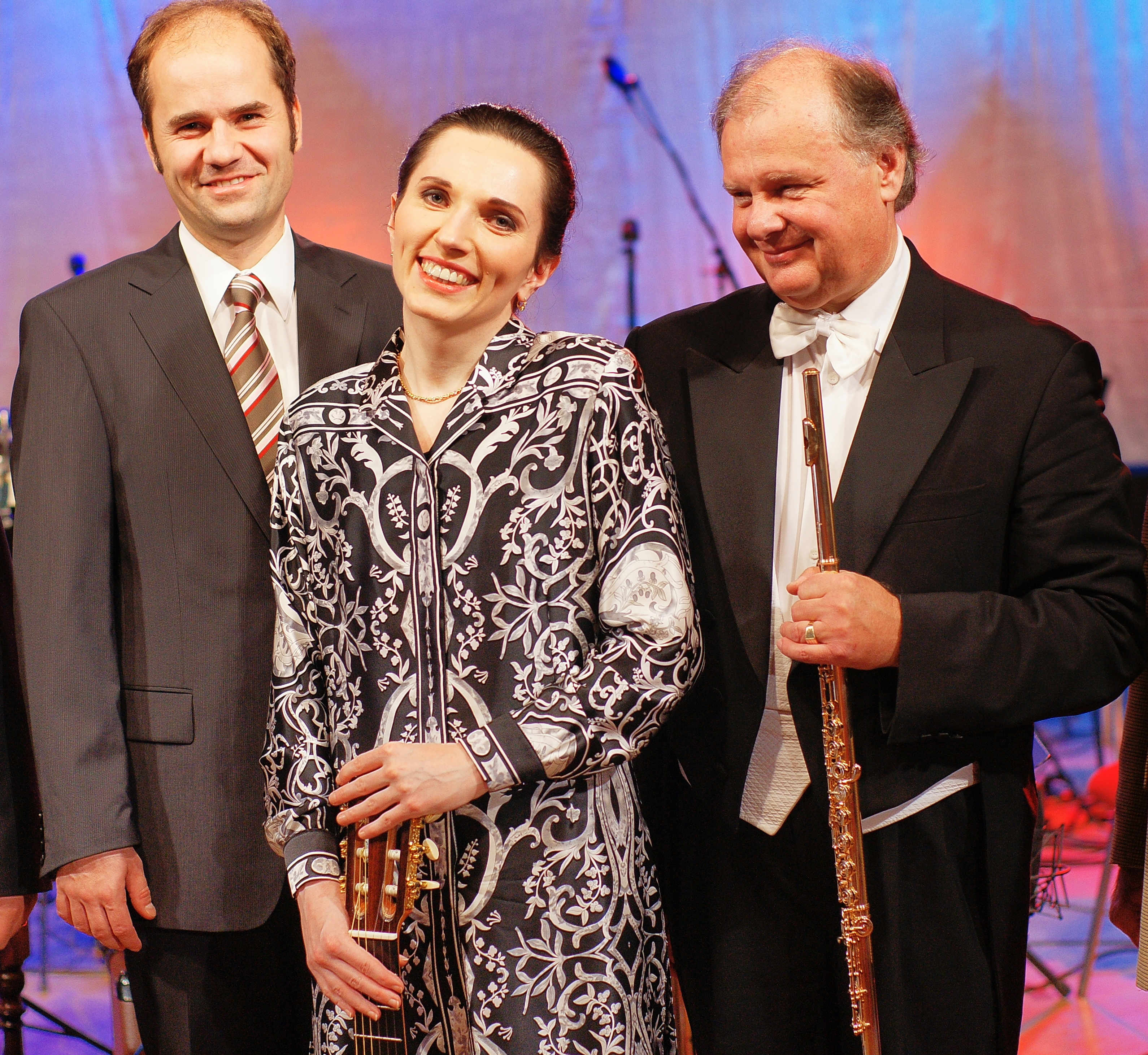 The Austrian guitarist Johanna Beisteiner (middle) with the Hungarian composer Robert Gulya (left) and the Hungarian conductor and flutist Béla Drahos (right) after a concert in Budapest on 24 October 2009.